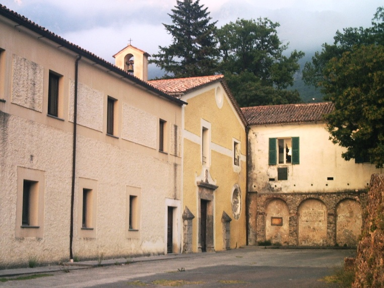 church of cappuccini